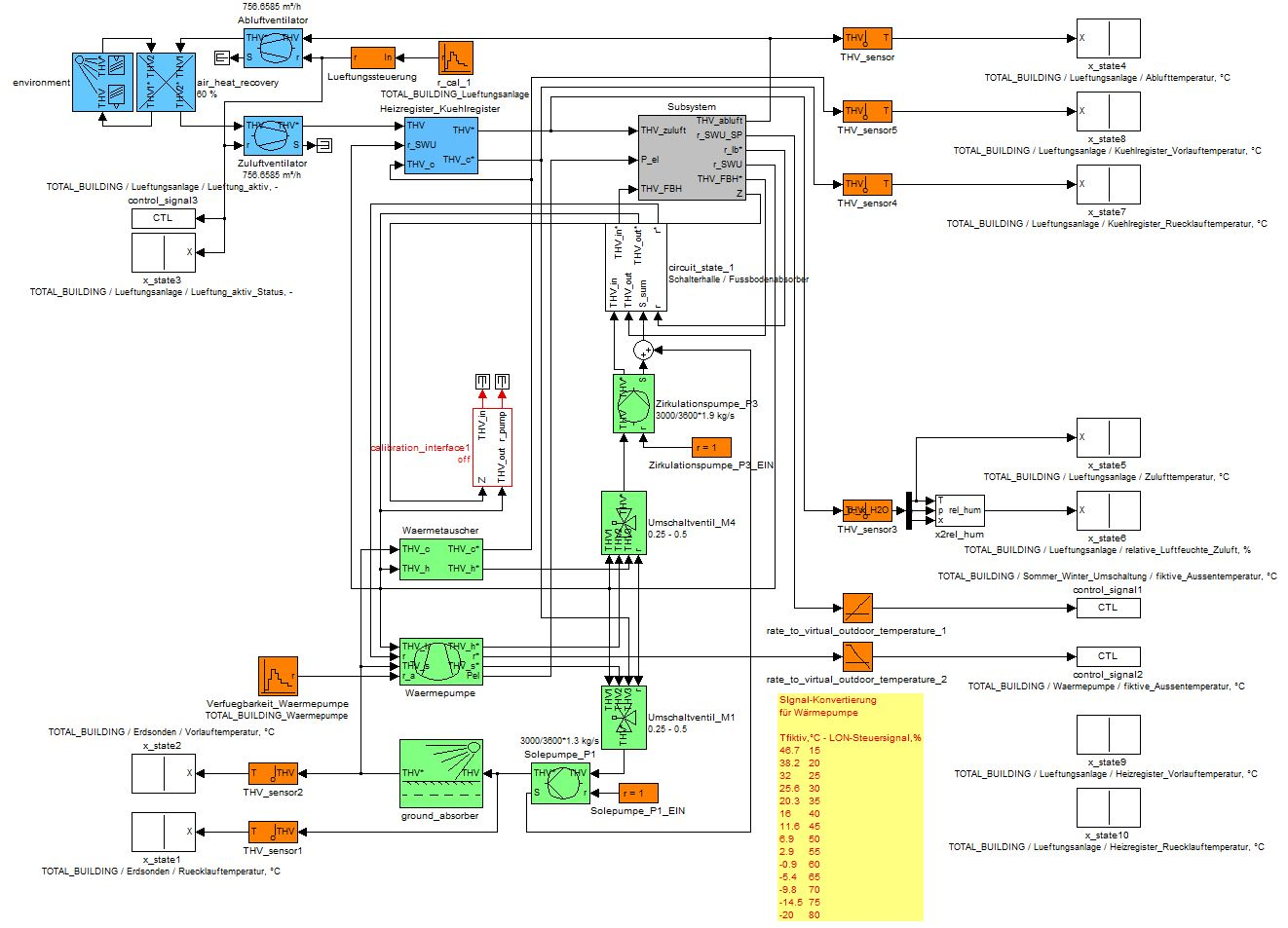 Sample of buildling simulation model including climatisation